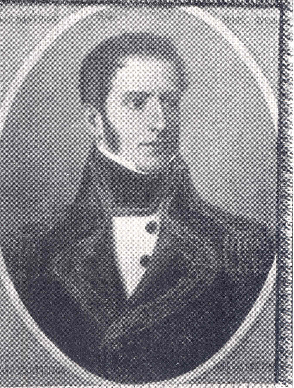 historical image of Gabriele Manthoné